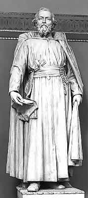 The National Statuary Hall Collection: Jacques Marquette